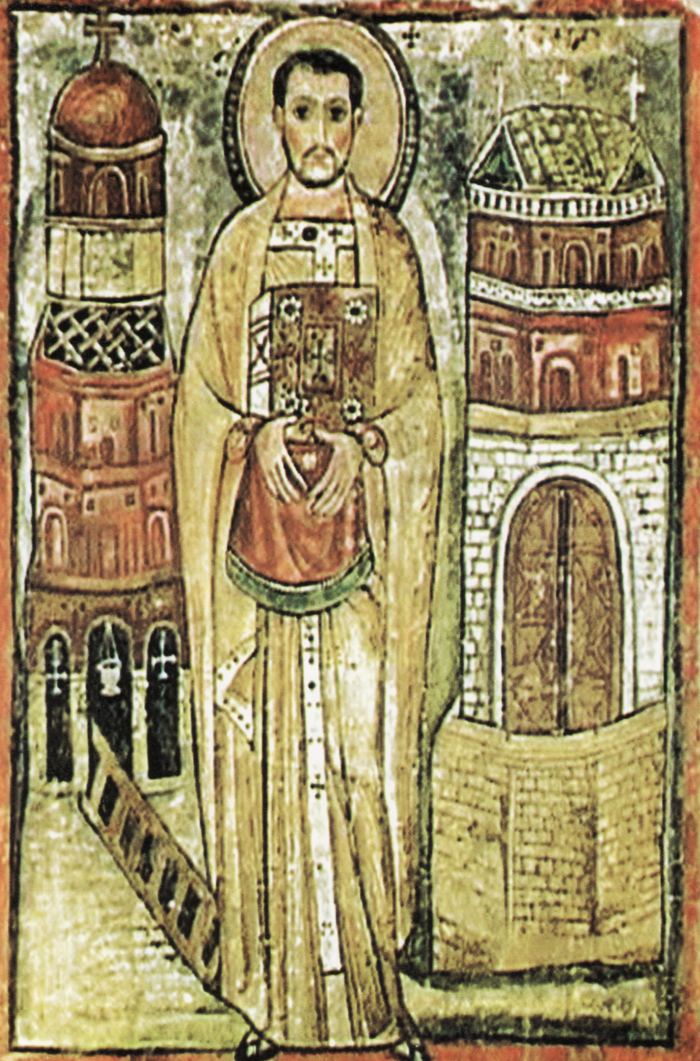 Pope Damian of Alexandria, 35th Pope of Alexandria & Patriarch of the See of St. Mark.